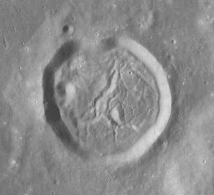 Crater Bohnenberger (detail of LRO - WAC global moon mosaic; Mercator projection)